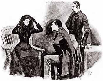 Illustration of the Sherlock Holmes short story The Speckled Band, which appeared in The Strand Magazine in February, 1892. Original caption was "SHE RAISED HER VEIL."